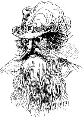 An illustration of Mangiafuoco by Enrico Mazzanti from "Le avventure di Pinocchio" by Carlo Collodi.